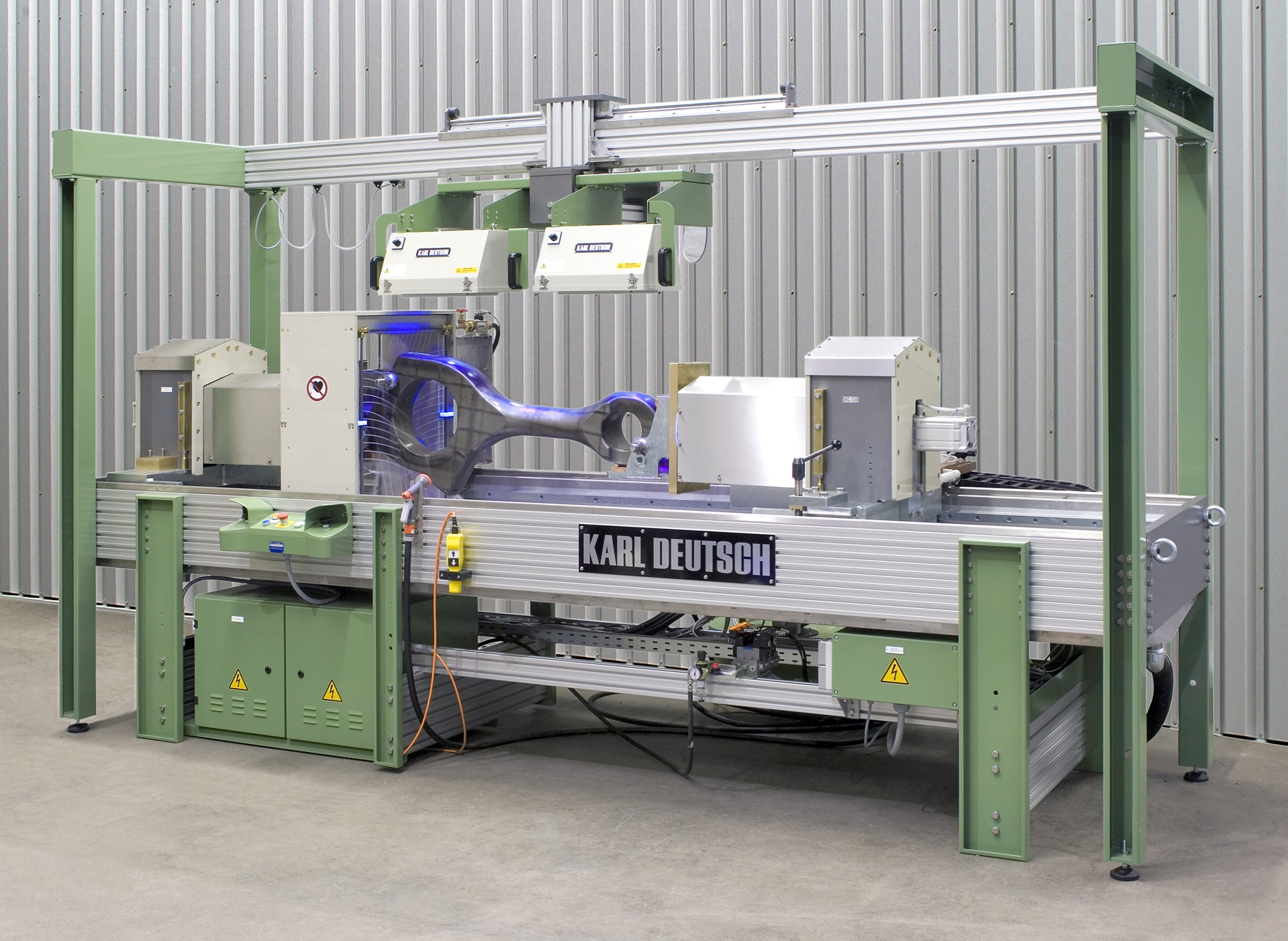 Magnetic-particle inspection test device